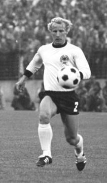 ADN-ZB/Mittelstädt/22/6/74/BRD/Hamburg: X. Fußball-Weltmeisterschaft/1. Finalrunde, Gruppe 1: DDR - BRD 1:0/DDR-Stürmer Martin Hoffmann (rechts) und Verteidiger Berti Vogts (Mitte) stürmen dem Ball nach. Links Franz Beckenbauer (beide BRD).